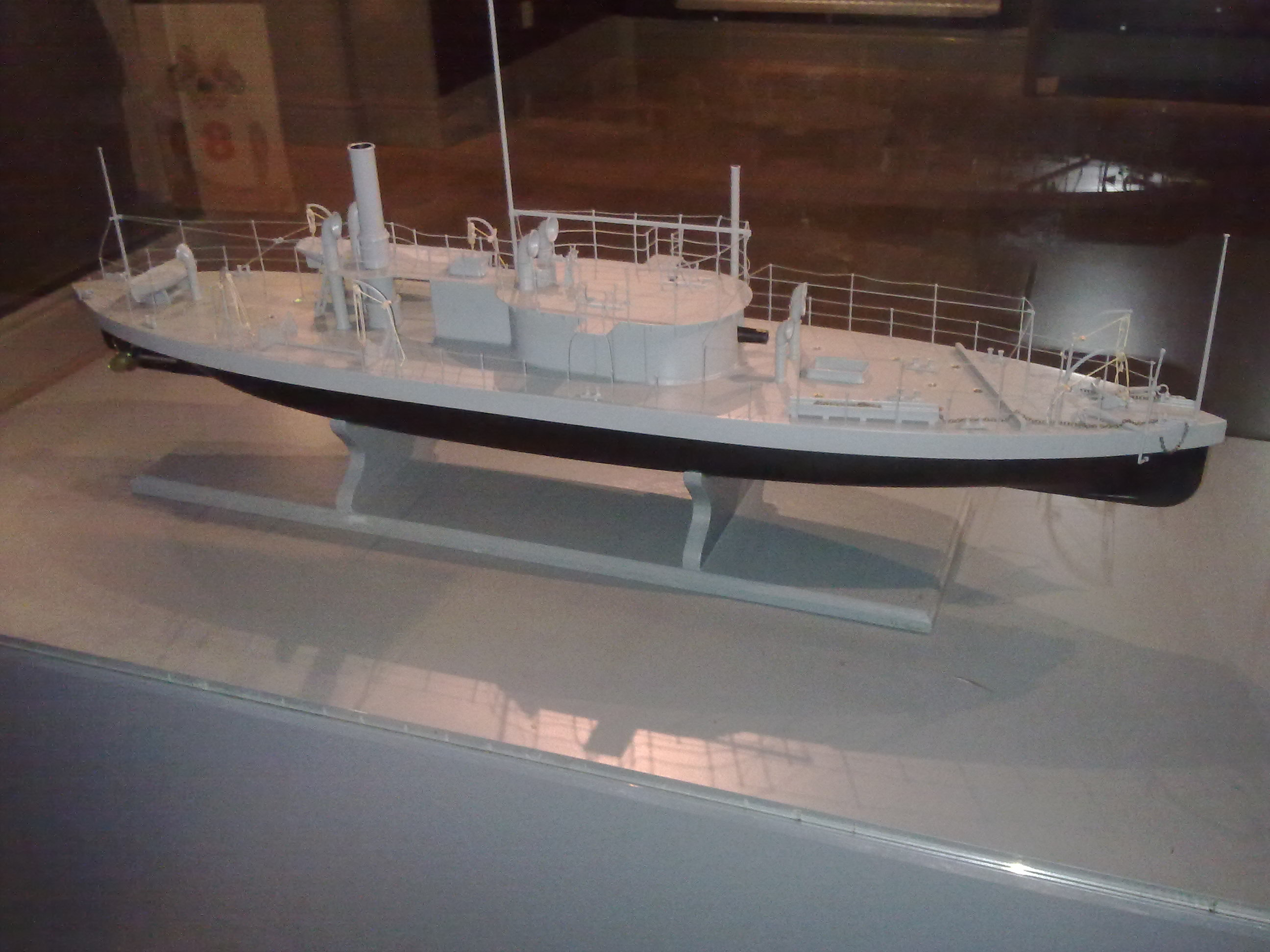 Model 1:50 of HMS Hildur at Vaxholm.